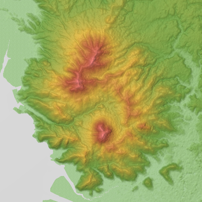 Mount Kinbo (Kinbo-zan) is a volcano in Kumamoto Prefecture, Kyushu, Japan. Aka. Mount Kinpo.